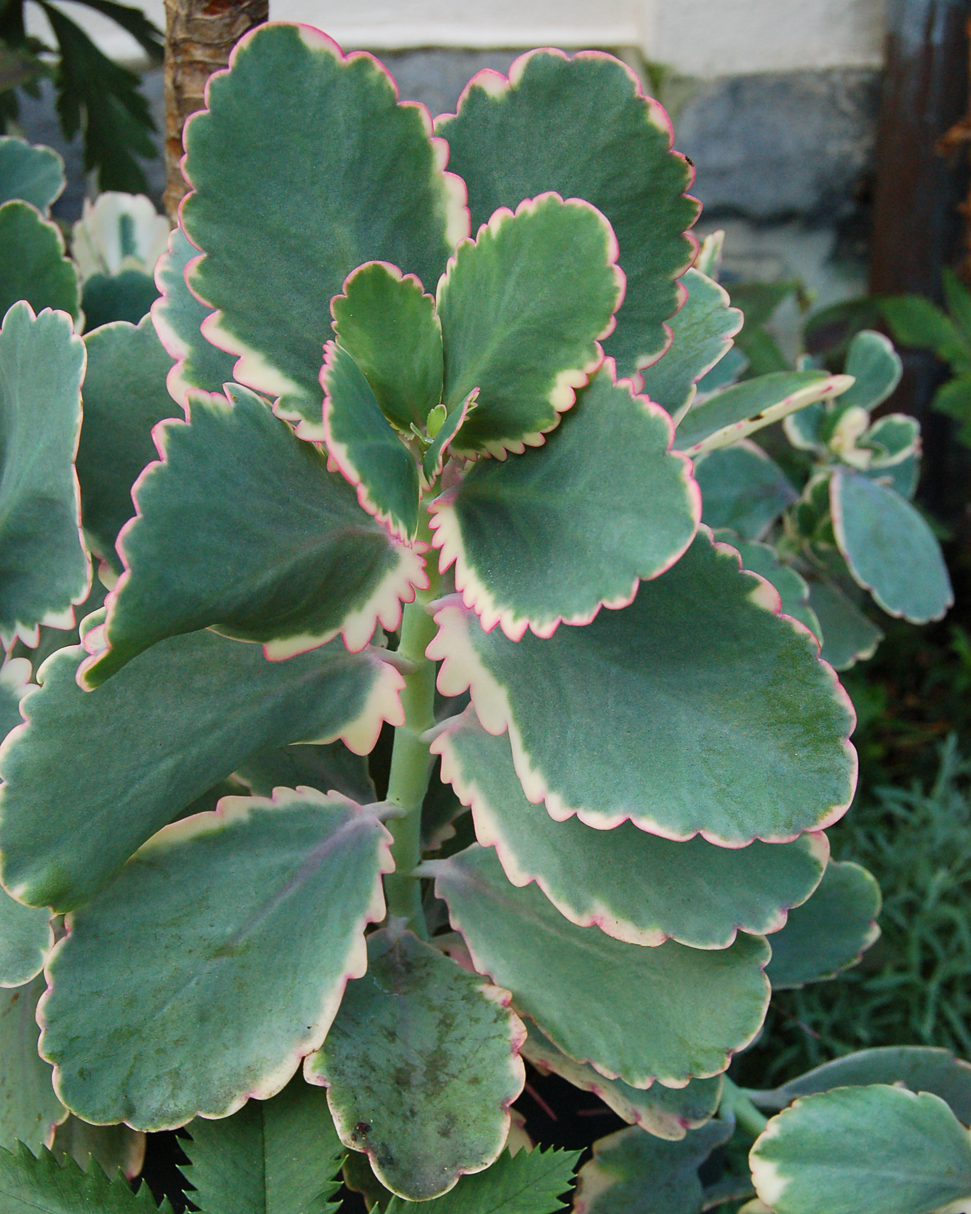 A picture of the Kalanchoe fedtschenkoi en 'Variegata' plant. Photo taken at the Chanticleer Garden where it was identified.